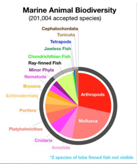 Marine animal biodiversity Shows the proportionate taxonomic biodiversity of all accepted marine species. Source: WoRMS Editorial Board. World Register of Marine Species. Available online: at VLIZ. Accessed: 18 October 2019.